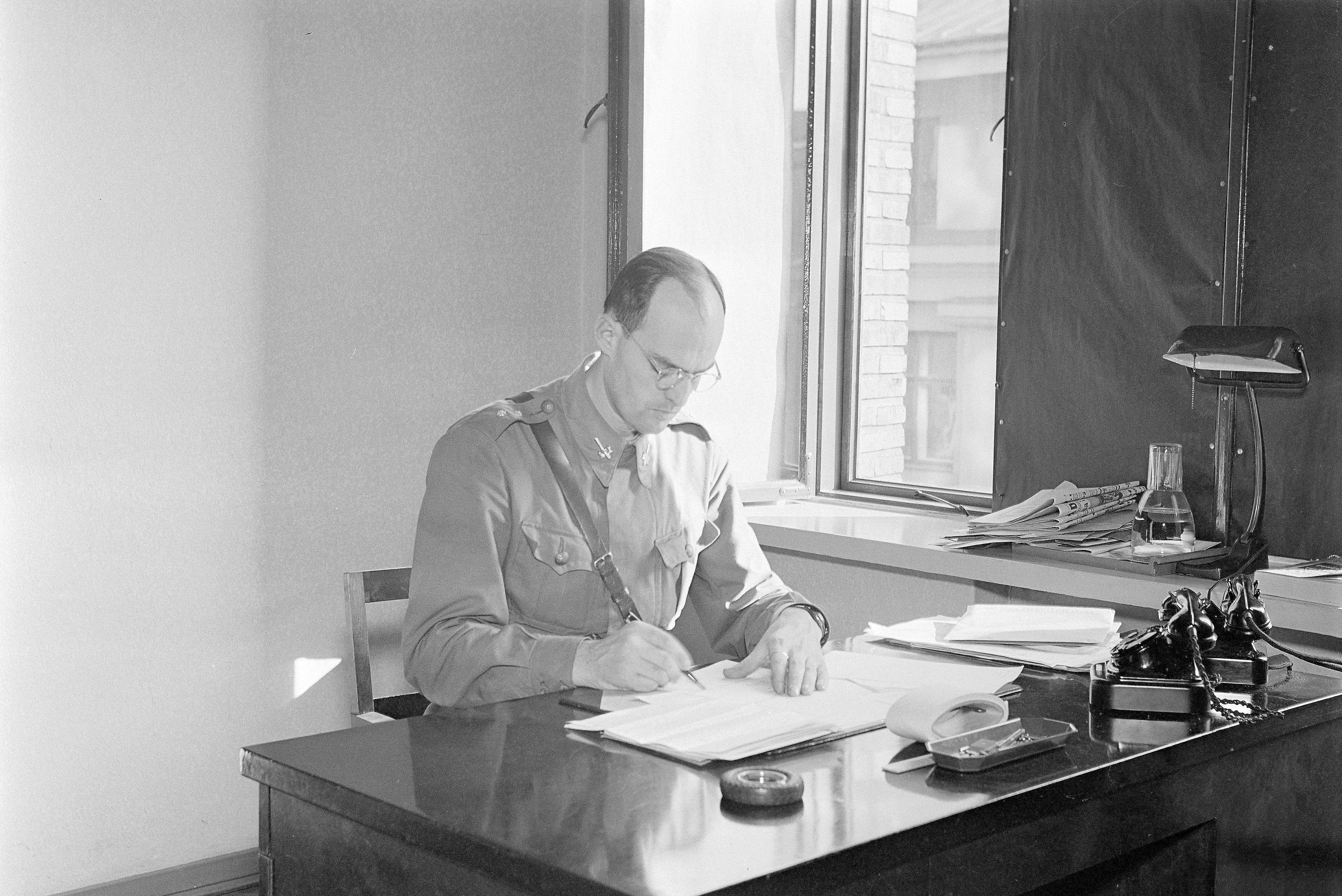 Photograph of the Finnish historian Martti Ruutu (1910–2005) at his desk in military uniform.